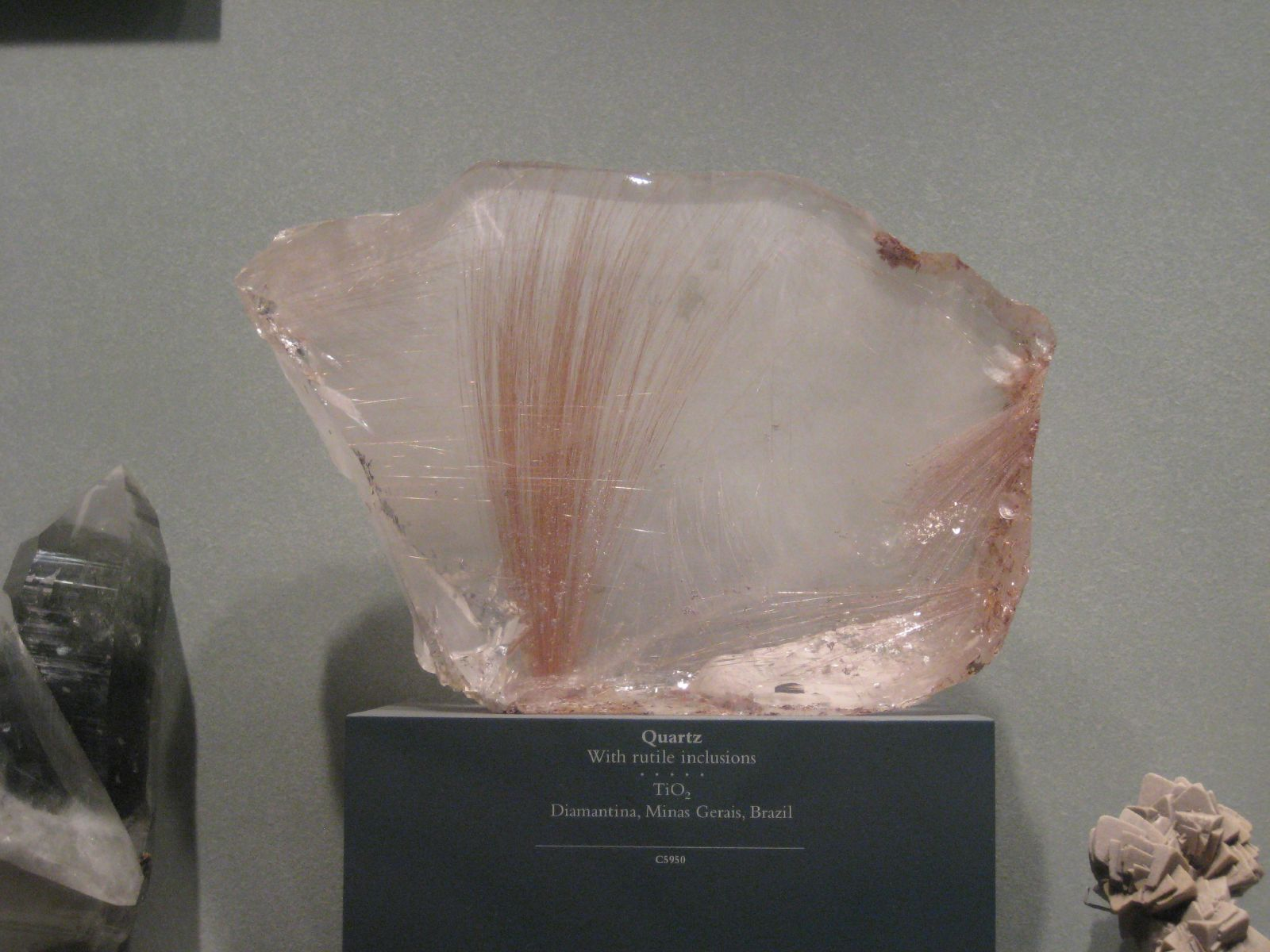 Quartz with Rutile Inclusions (TiO2) Diamantina, Minas Gerais, Brazil